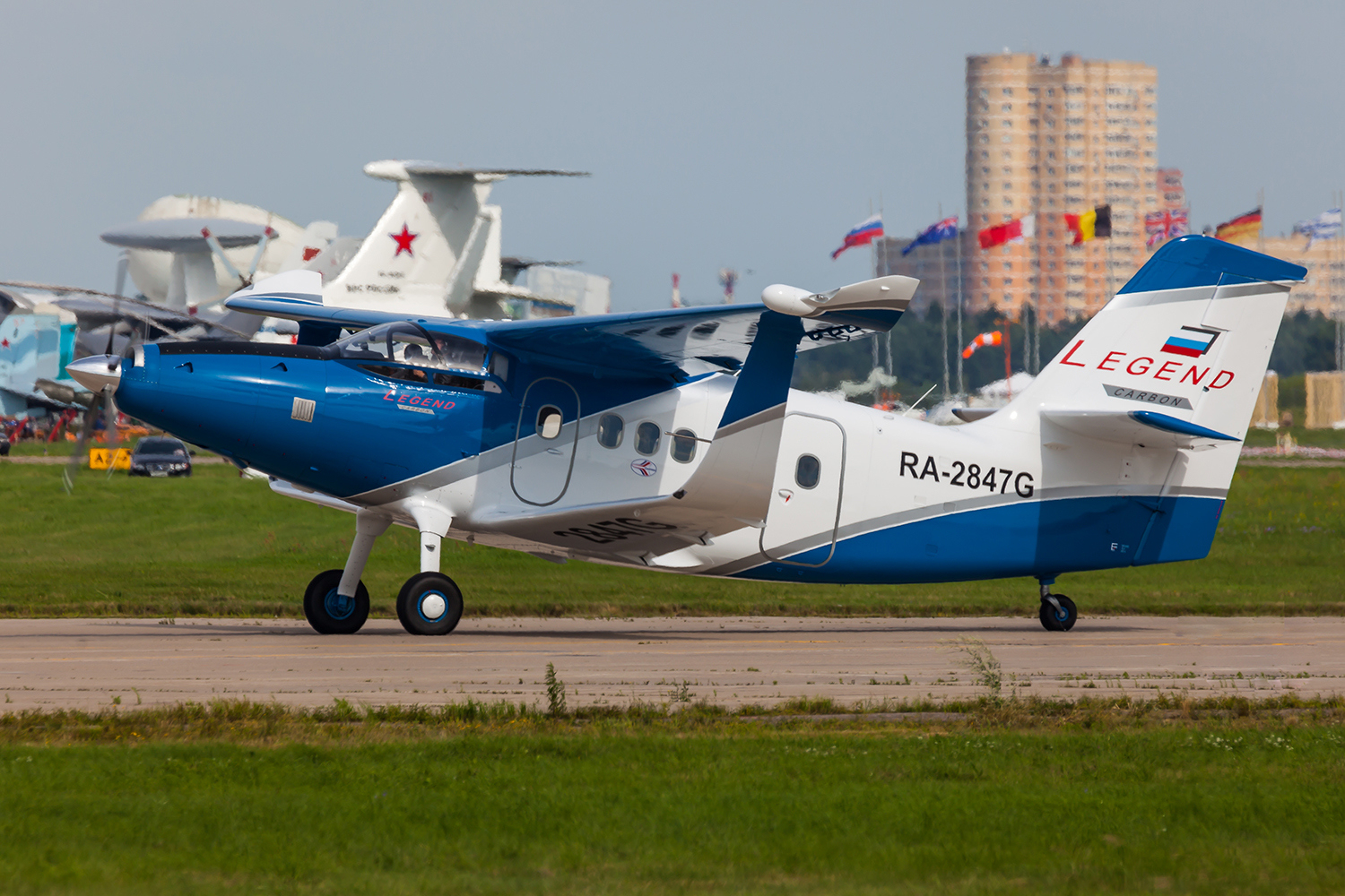 SibNIA TVS-2MS – Turboprop conversion of An-2